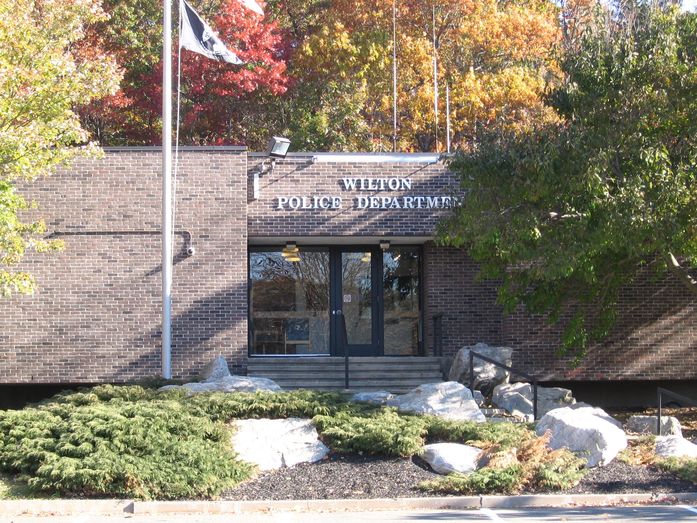 Wilton, Connecticut police station, behind Town Hall on Danbury Road (Route 7).